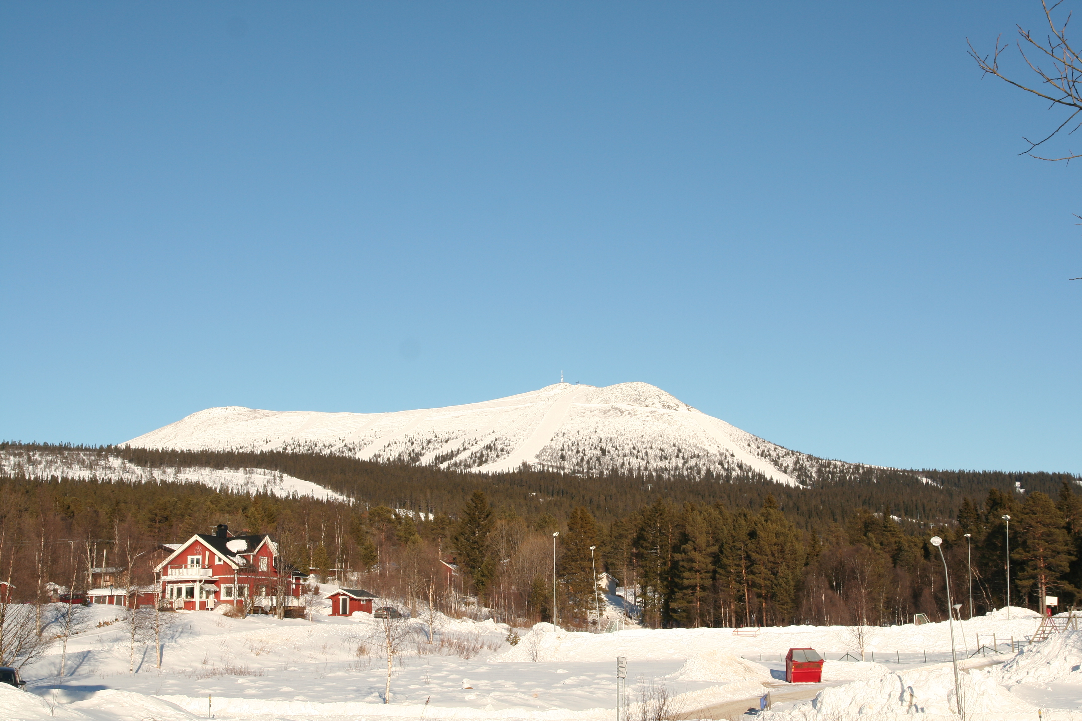 The mountain Hovärken seen from the village of Lofsdalen in Sweden.